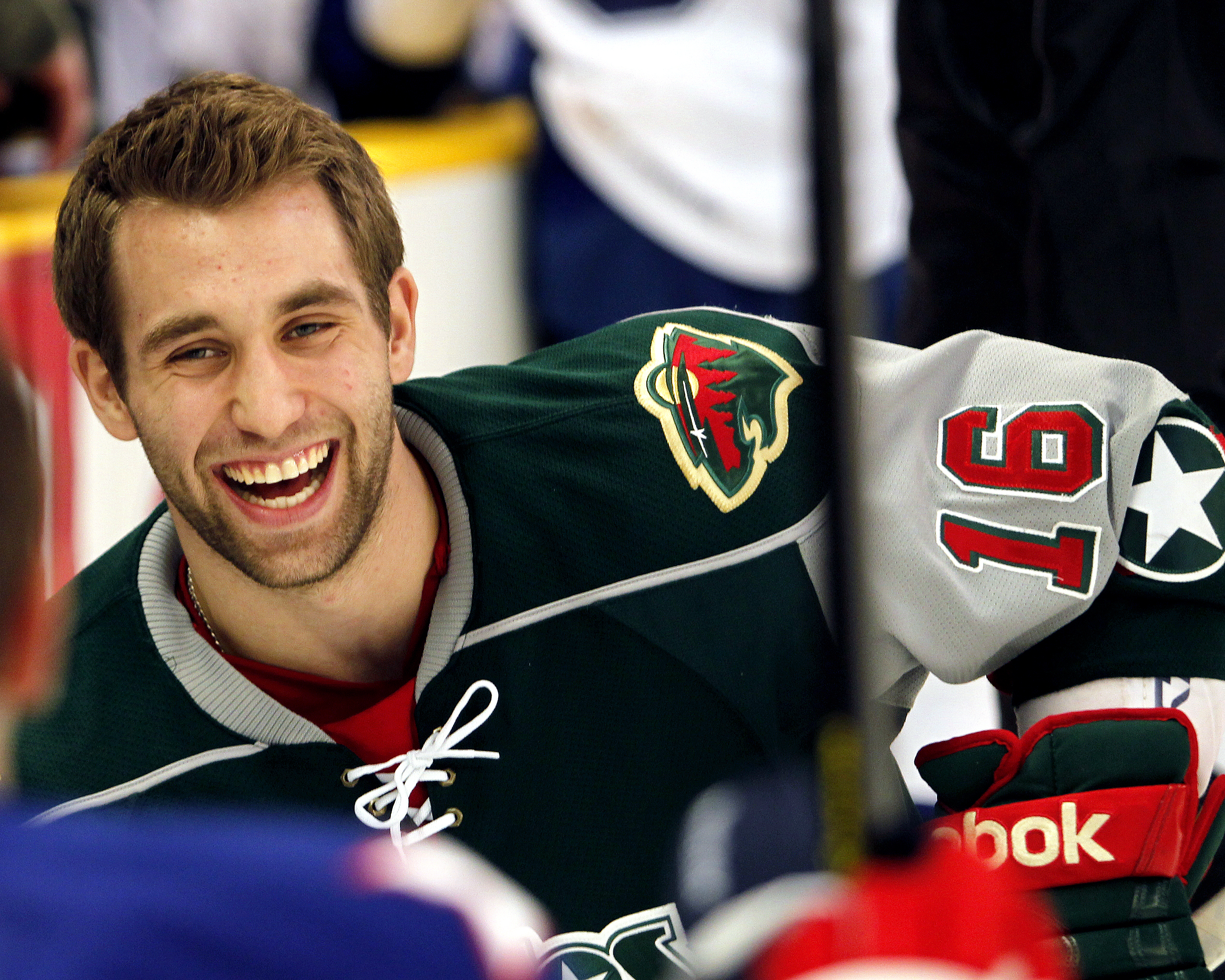 Jason Zucker American Hockey League (AHL). 2013 All-Star Skills Competition. Taken on January 27, 2013.